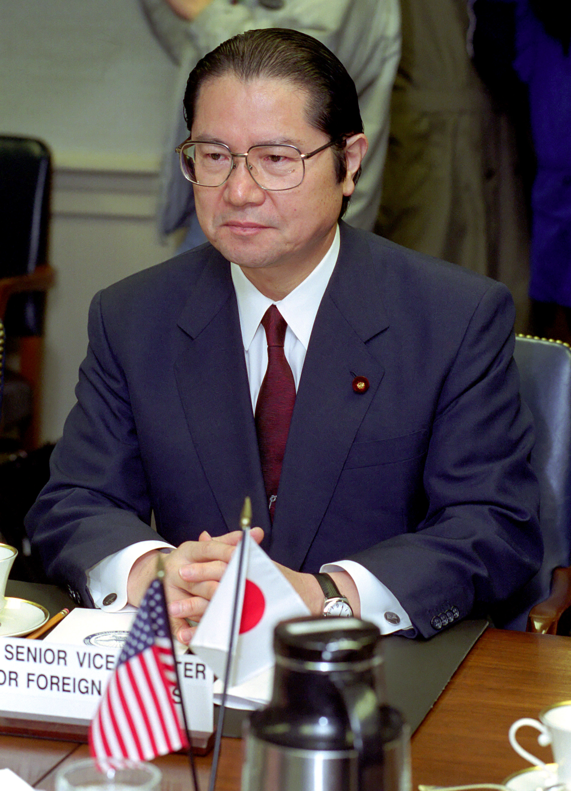 Seishiro Etō, Japanese Senior Vice Minister of Foreign Affairs, at the Pentagon, Room 3E928, Washington, D.C., Feb. 16, 2001, to discuss the February 9th collision between the submarine U.S. Navy Los Angeles Class Attack Submarine USS GREENVILLE (SSN 772) and a 190 ft. Japanese teaching trawler, the Ehime Maru. OSD Package No. KV-OSD-02 (Photo by Robert D. Ward) (Released) (original text)